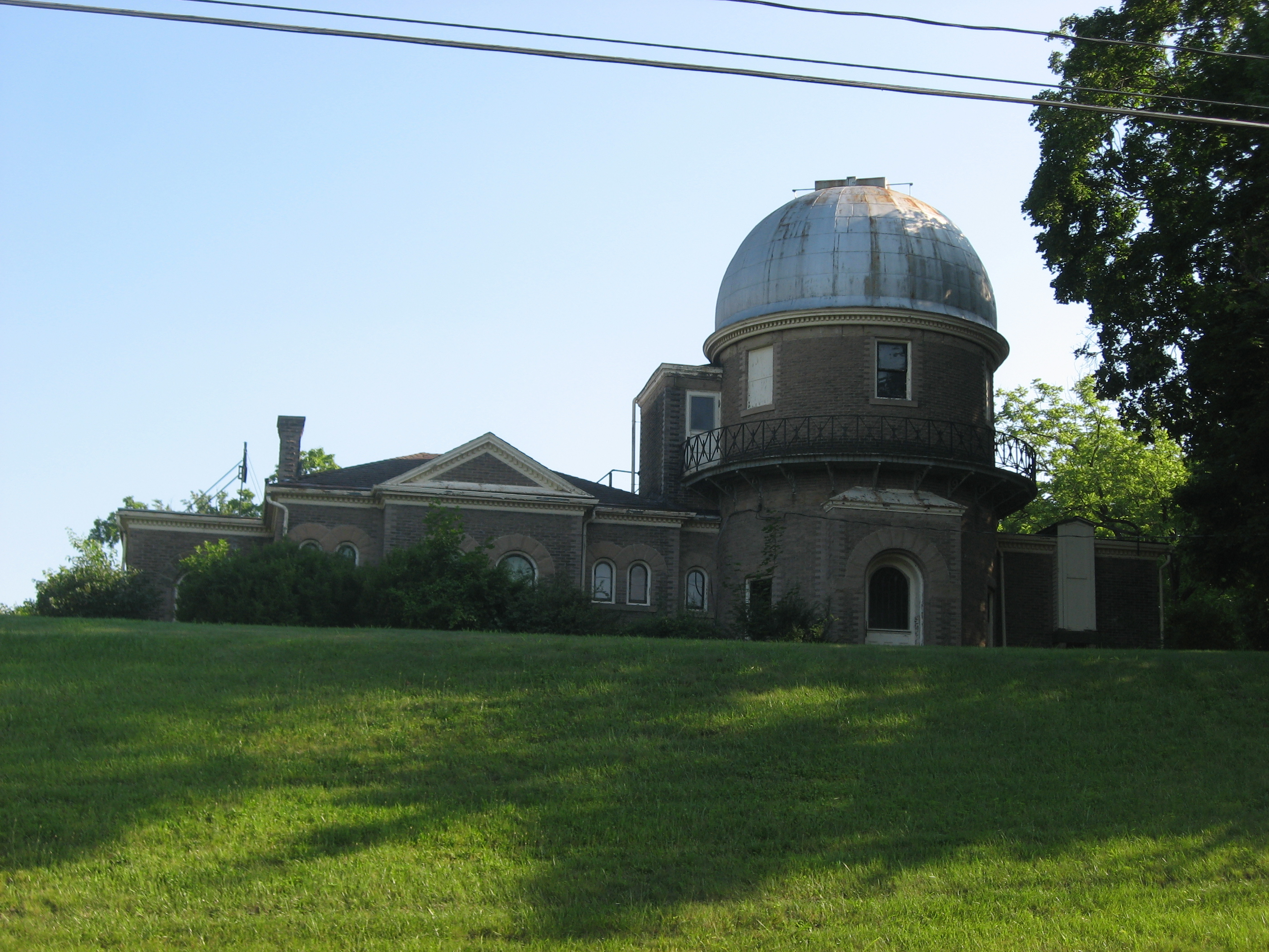 Front of the old Ohio Wesleyan University Student Observatory (now superseded by the Perkins Observatory), located along W. William Street (U.S. Route 36) on the campus of Ohio Wesleyan University in Delaware, Ohio, United States. Built in 1900, it is listed on the National Register of Historic Places.